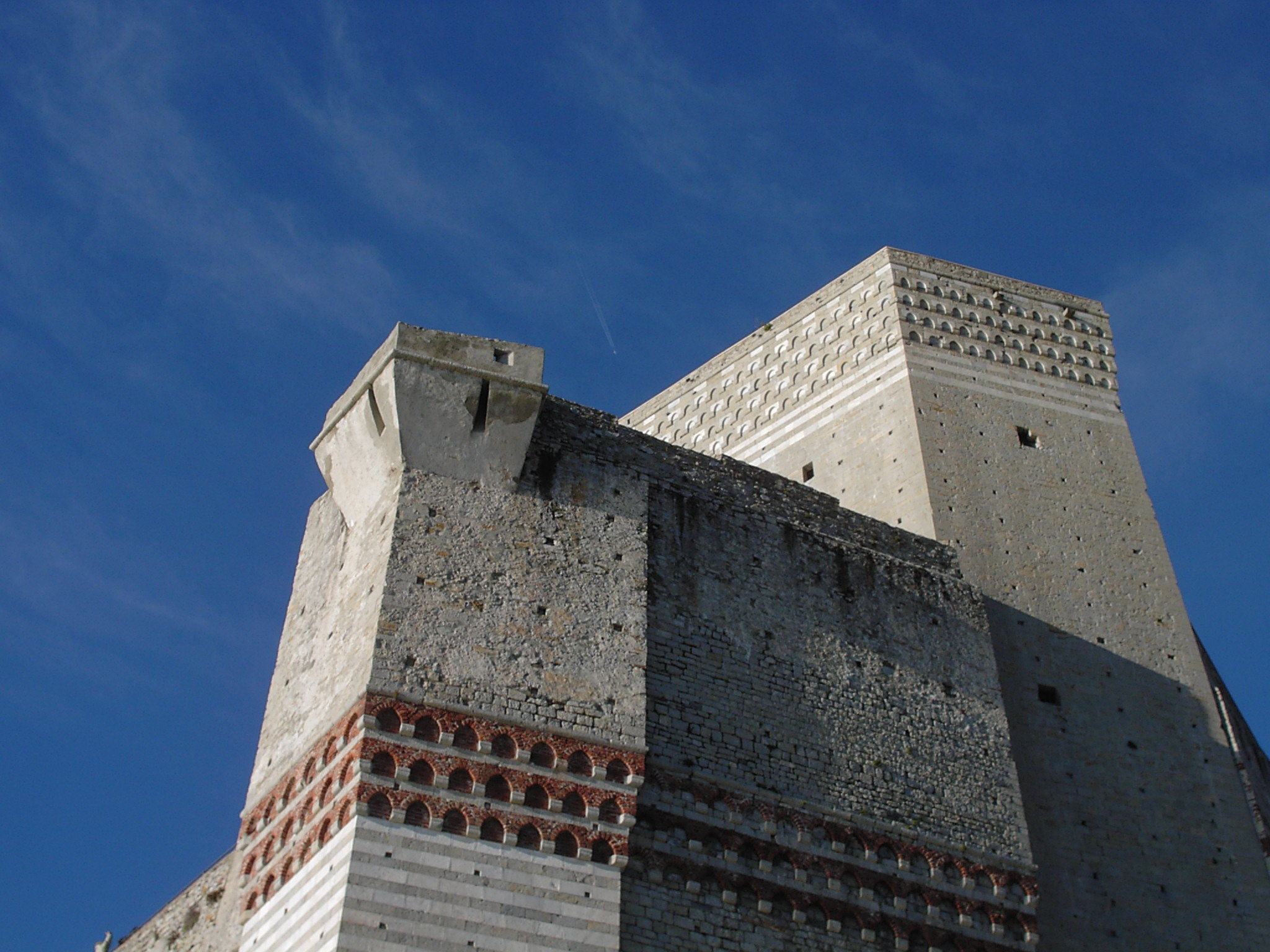 This is a photo of a monument which is part of cultural heritage of Italy.